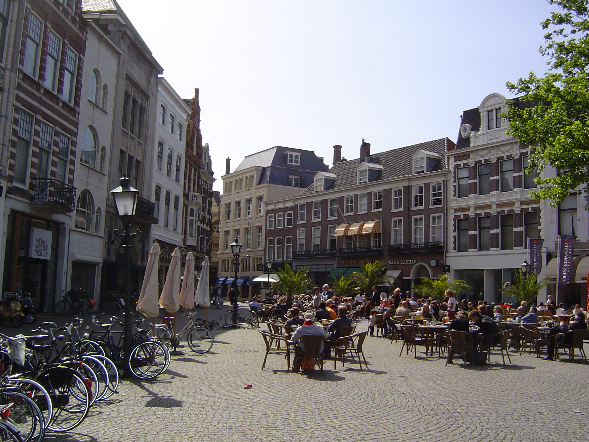 Plaats, The Hague, Holland